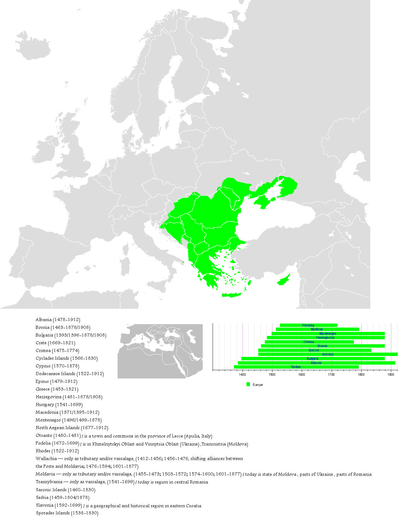 Ottoman empire at Europe